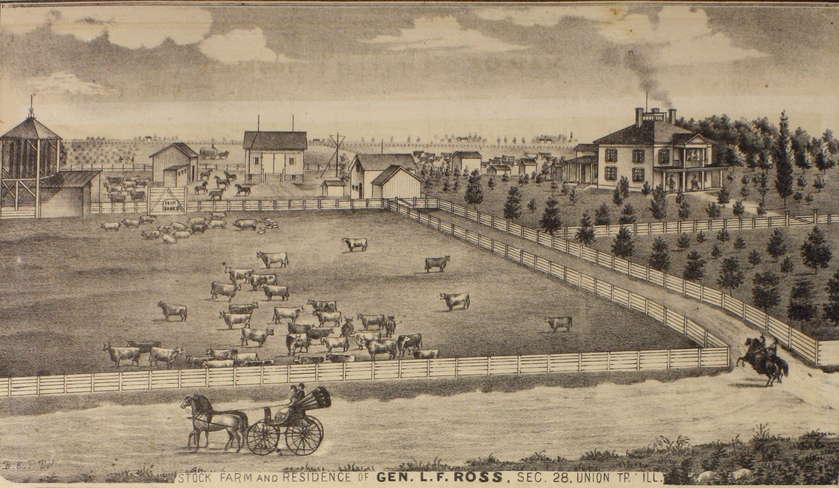 Illustration of the stock farm and residence of General Leonard F. Ross in Avon, Illinois, in the mid-1800s. From the Atlas Map of Fulton County, Illinois. Compiled, drawn, and published from personal examination and surveys by Andreas, Lyter, & Co., Davenport, Iowa, 1871